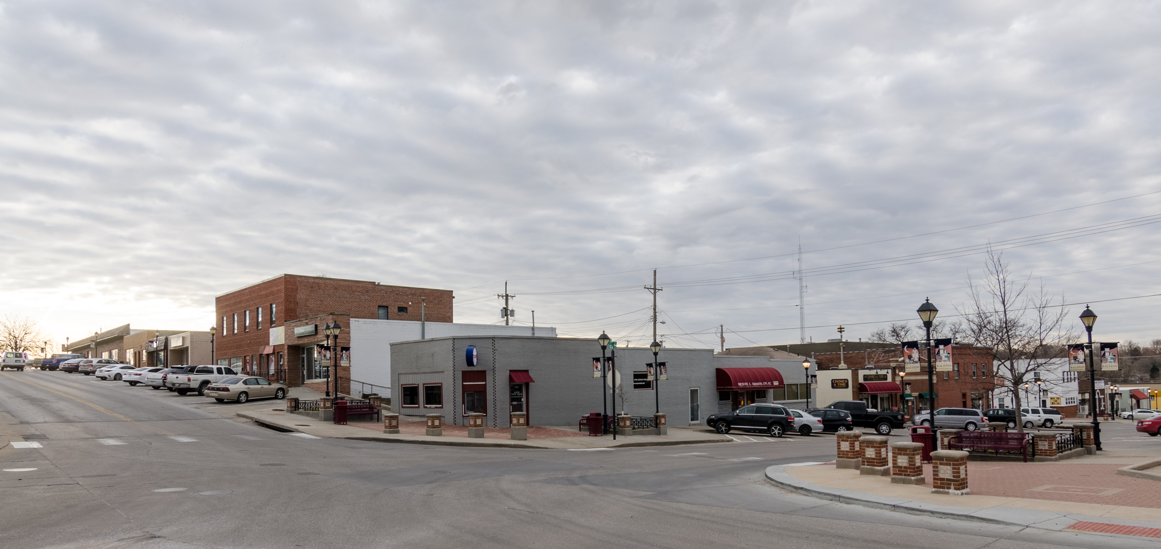 Main Street in Ralston, Nebraska